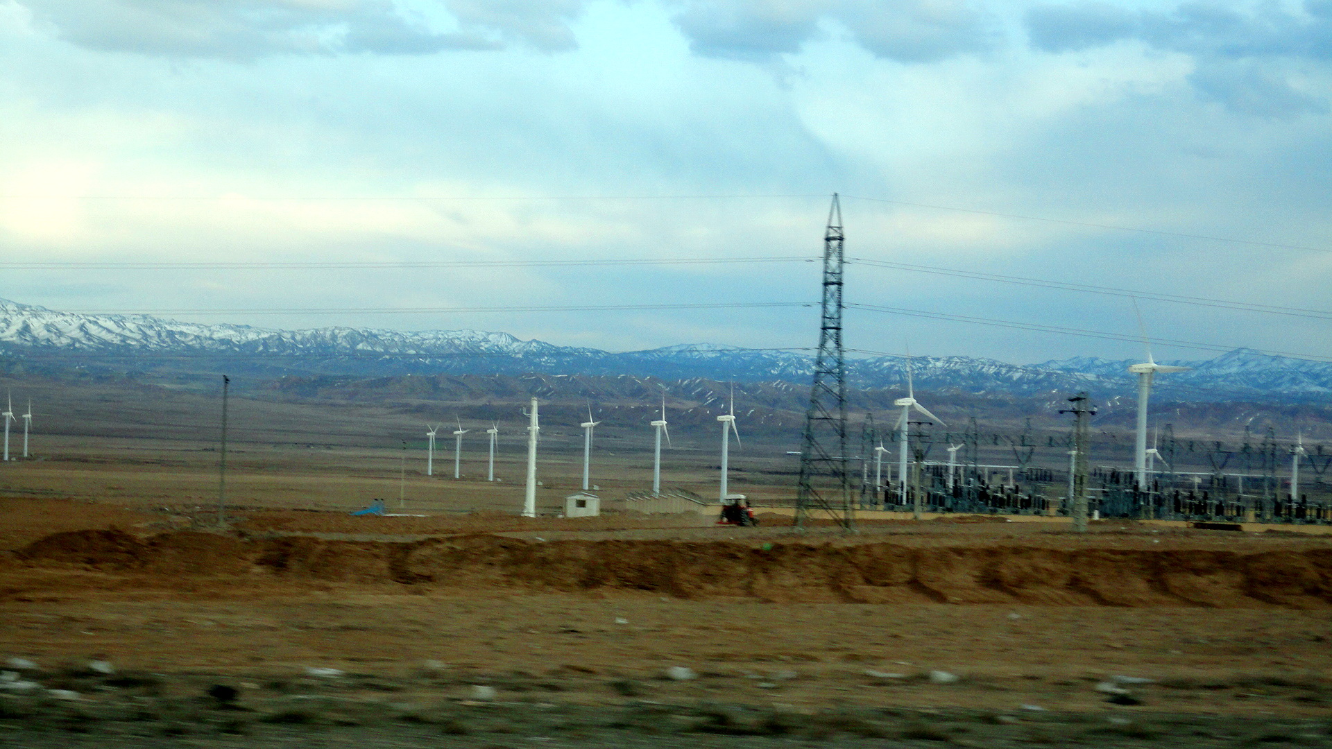 The Road of 44 - East of Iran - Nishapur to Mashhad - Dizbad wind farm